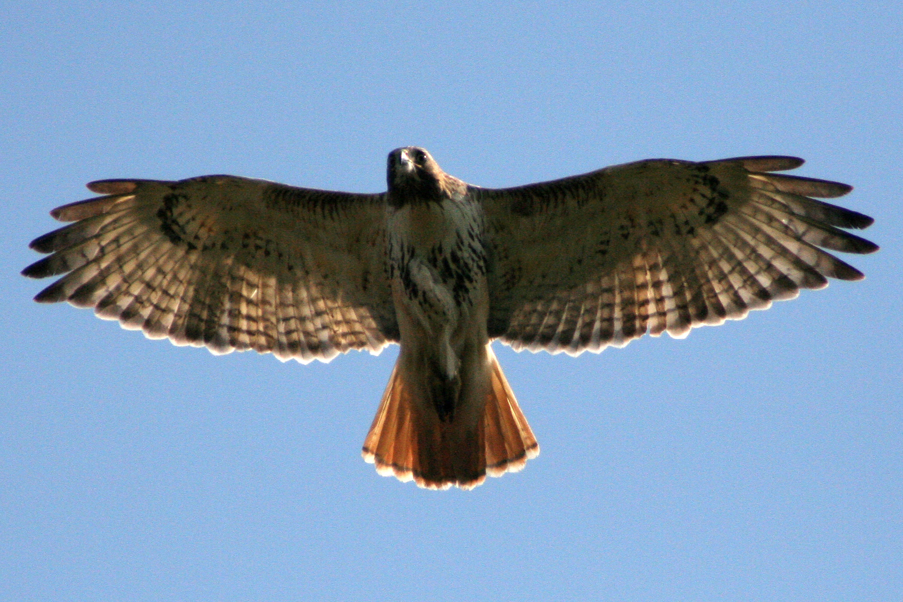 Buteo jamaicensis Red-tailed Hawk